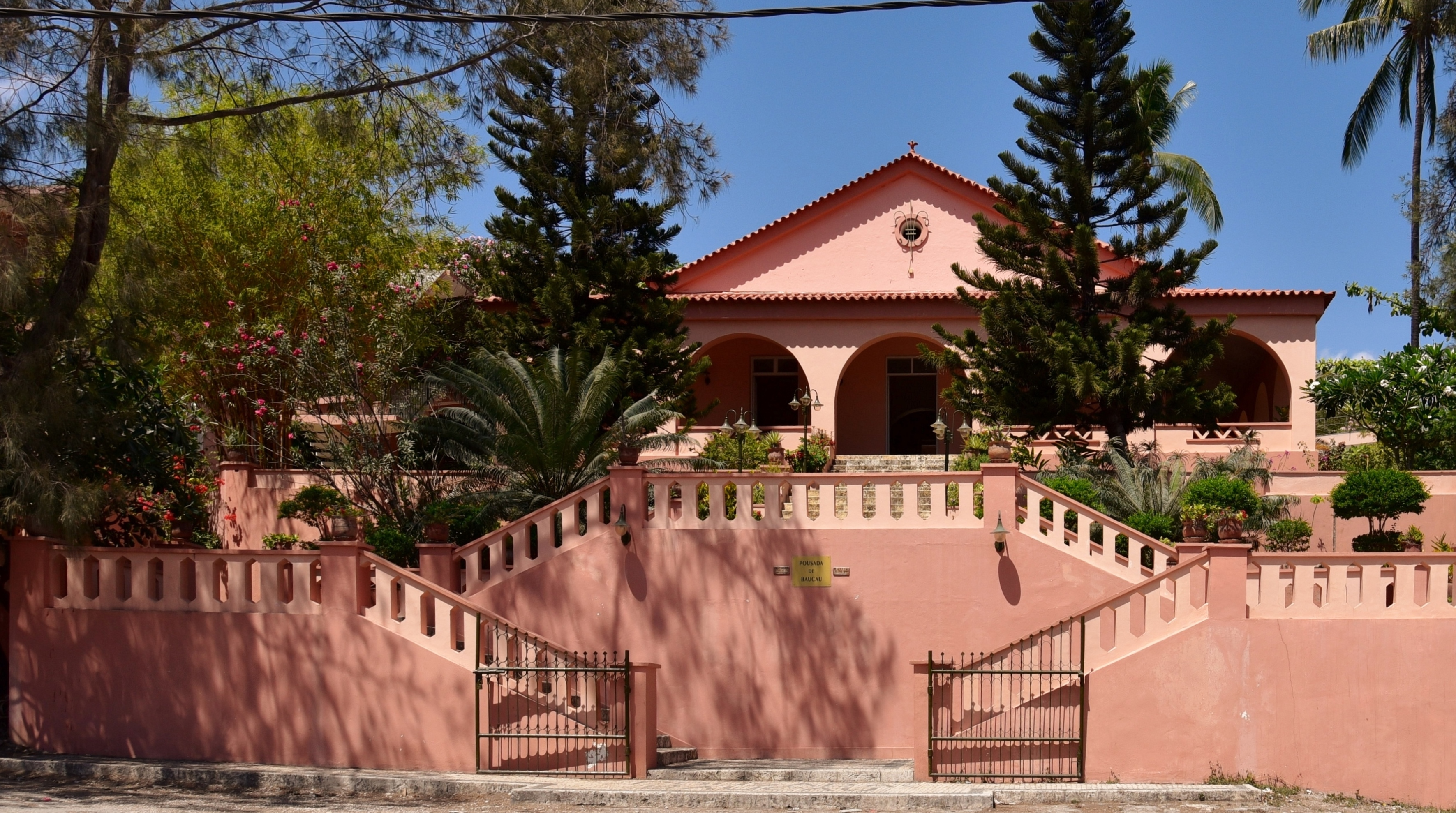 View of the Pousada de Baucau, Bacau, East Timor